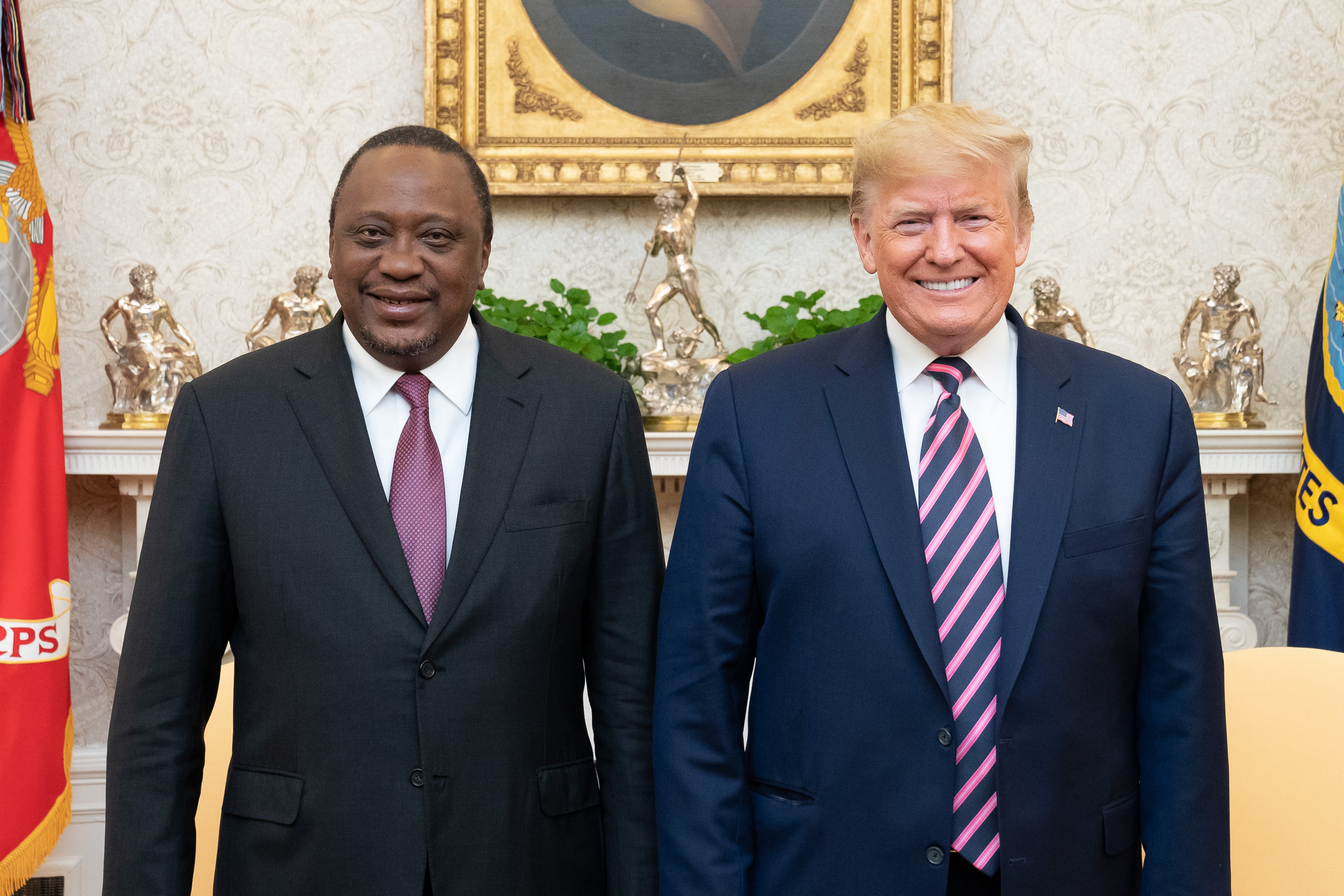 President Donald J. Trump meets with Kenya’s President Uhuru Kenyatta Thursday, Feb. 6, 2020, in the Oval Office of the White House. (Official White House Photo by Tia Dufour)